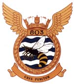 Emblem of No. 803 Naval Air Squadron, Fleet Air Arm, Royal Navy. 803 NAS was operational 1933-1937, 1938-1969.